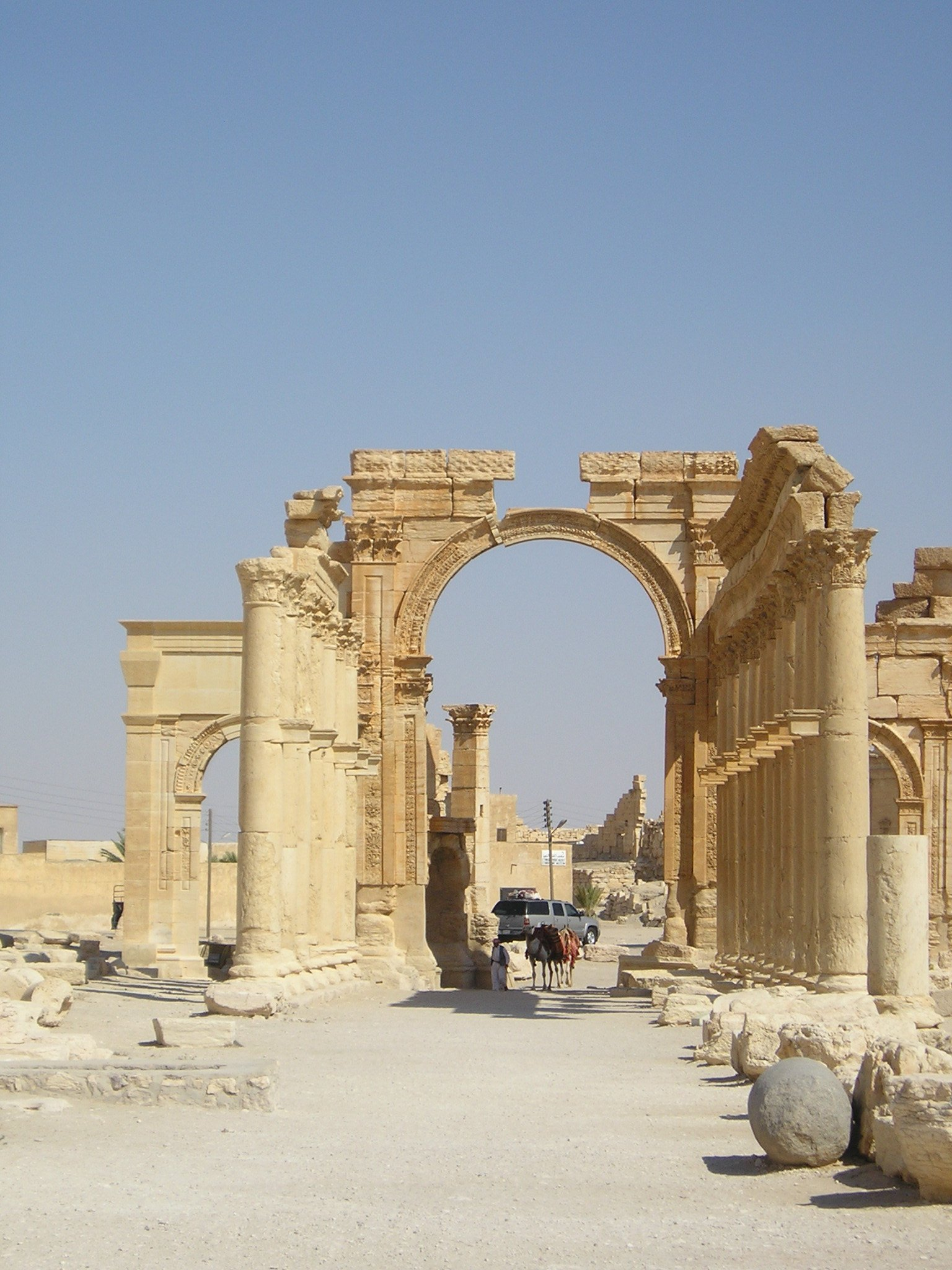 Palmyra, Syria - the monumental arch at the eastern end of the decumanus